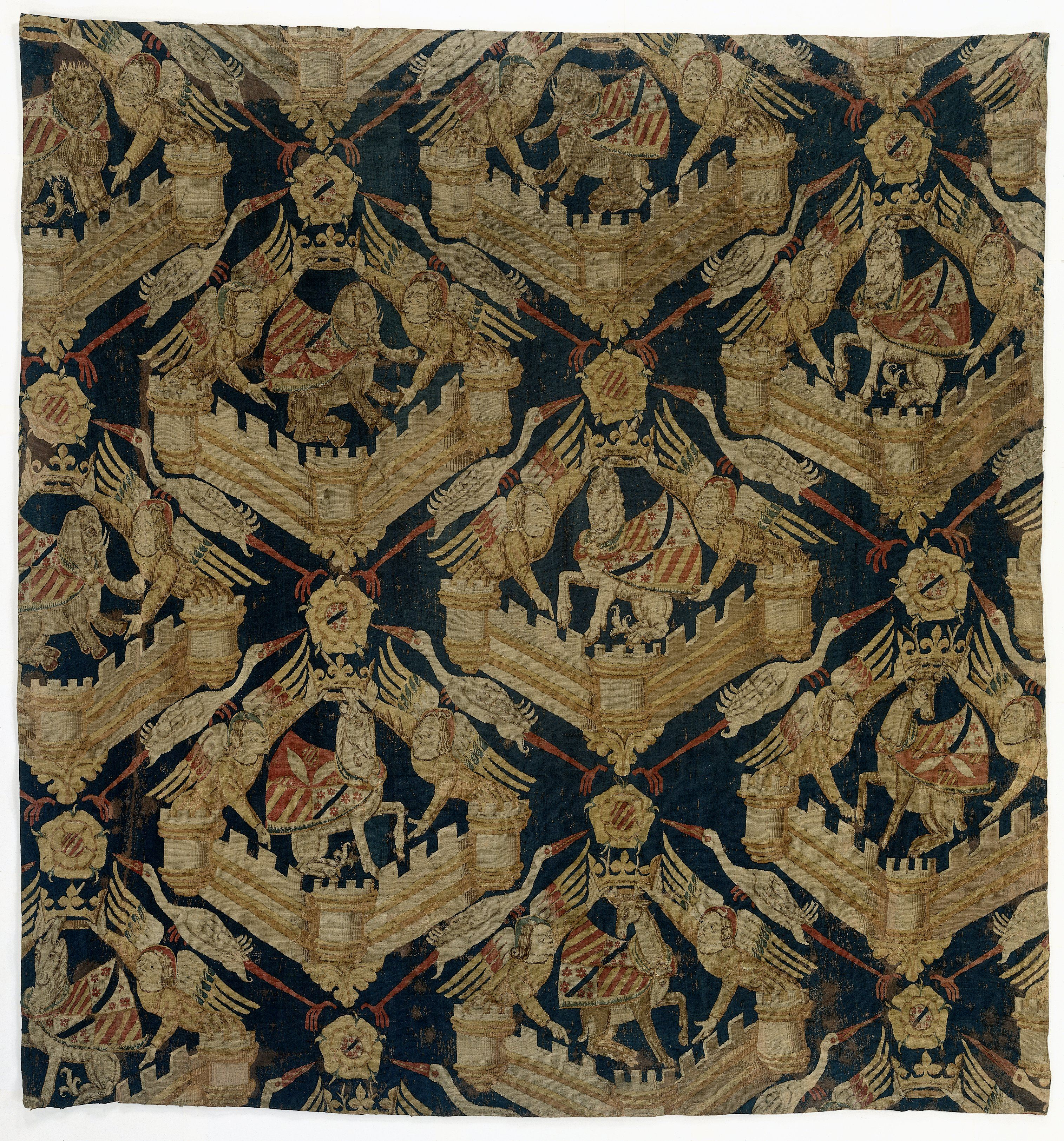 Tapestry with the arms of Beaufort, Turenne and Comminges, 2nd half of 14th century, Rijksmuseum